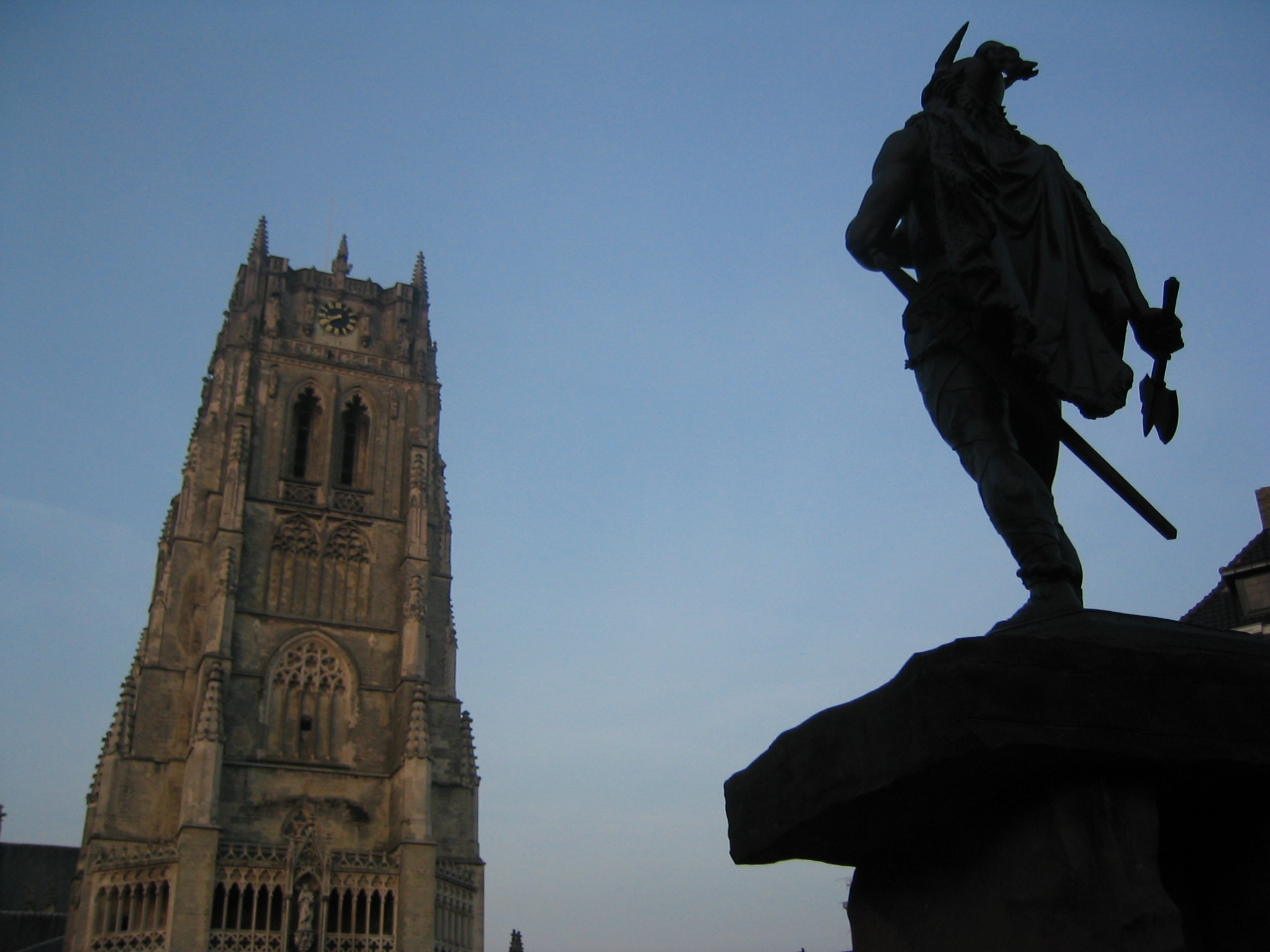 Photograph taken of the backside of Ambiorix with the Basilika of Tongeren on the background